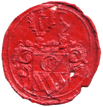 Ignac Buček seal, Professor of Political and Commercial Sciences at the Faculty of Philosophy in Prague 1776-1781 appointed by Empress Maria Theresia